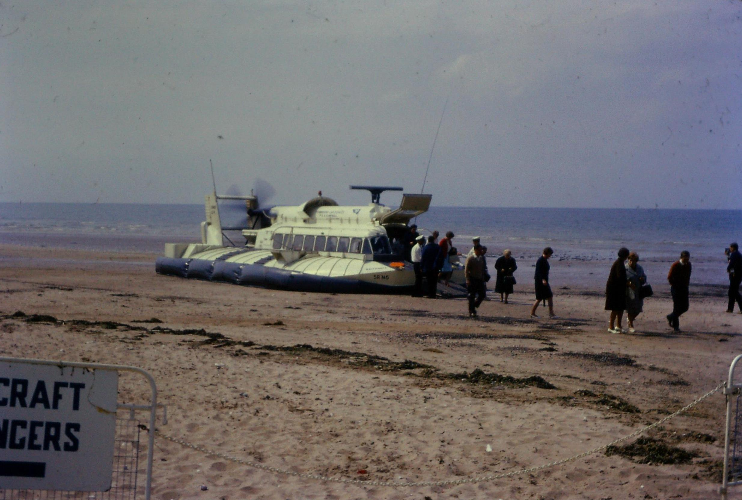 P&A Campbell SR.N6-024 used to promote Townsend Car Ferries services around Britain